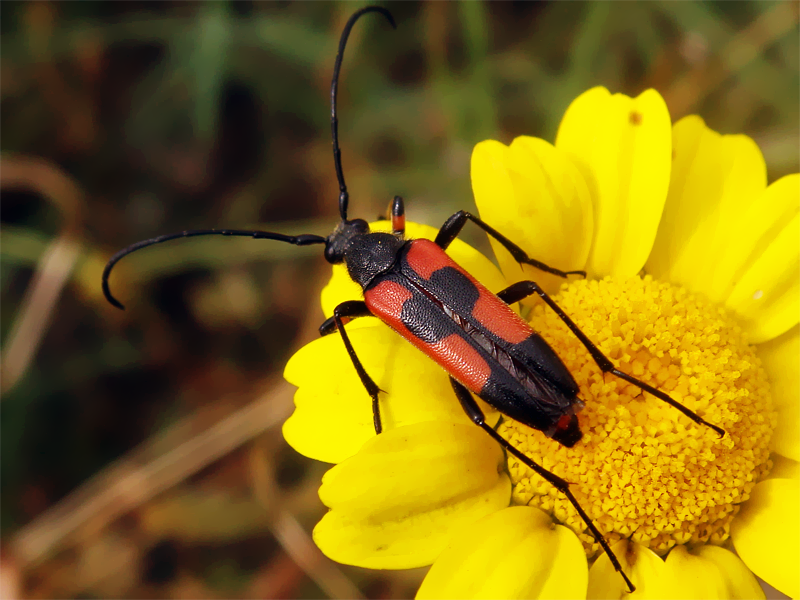 Nustera distigma in Ansião, Leiria, Portugal